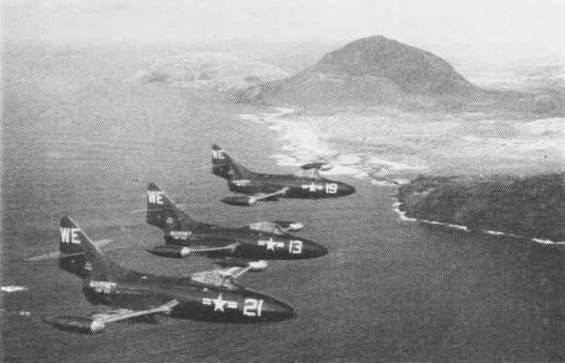 Three Grumman F9F-2 Panthers of U.S. Marine Corps fighter squadron VMF-214 Black Sheep over Oahu, Hawaii (USA), in 1953.